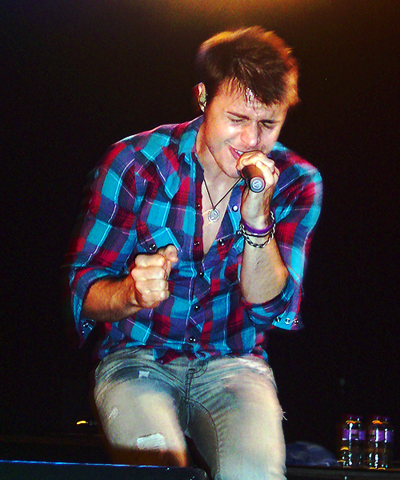 Kris Allen performing live at Turner Hall Ballroom in Mikwaukee, WI on June 4, 2010